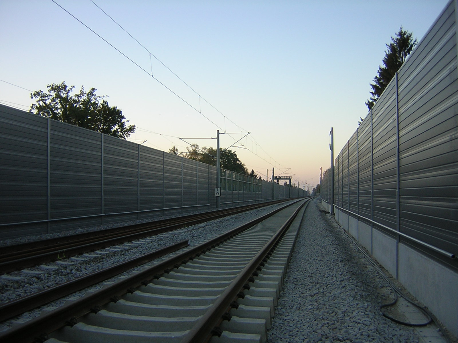 Tracks of the Nuremberg-Munich high-speed railway line in Munich. When the picture was taken in 2005, the left track had been in normal operation while the right one was still under construction.